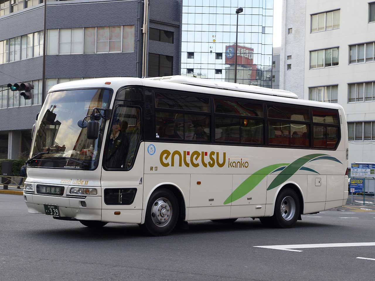 Fleet of Entetsu Kanko Bus group, for sightseeing tour. Model: Mitsubishi Fuso Aero Bus KK-MM86FH License plate: SZH200 KA-339 Place:Manseibashi, Soto-Kanda, Chiyoda Ward, Toyko Japan